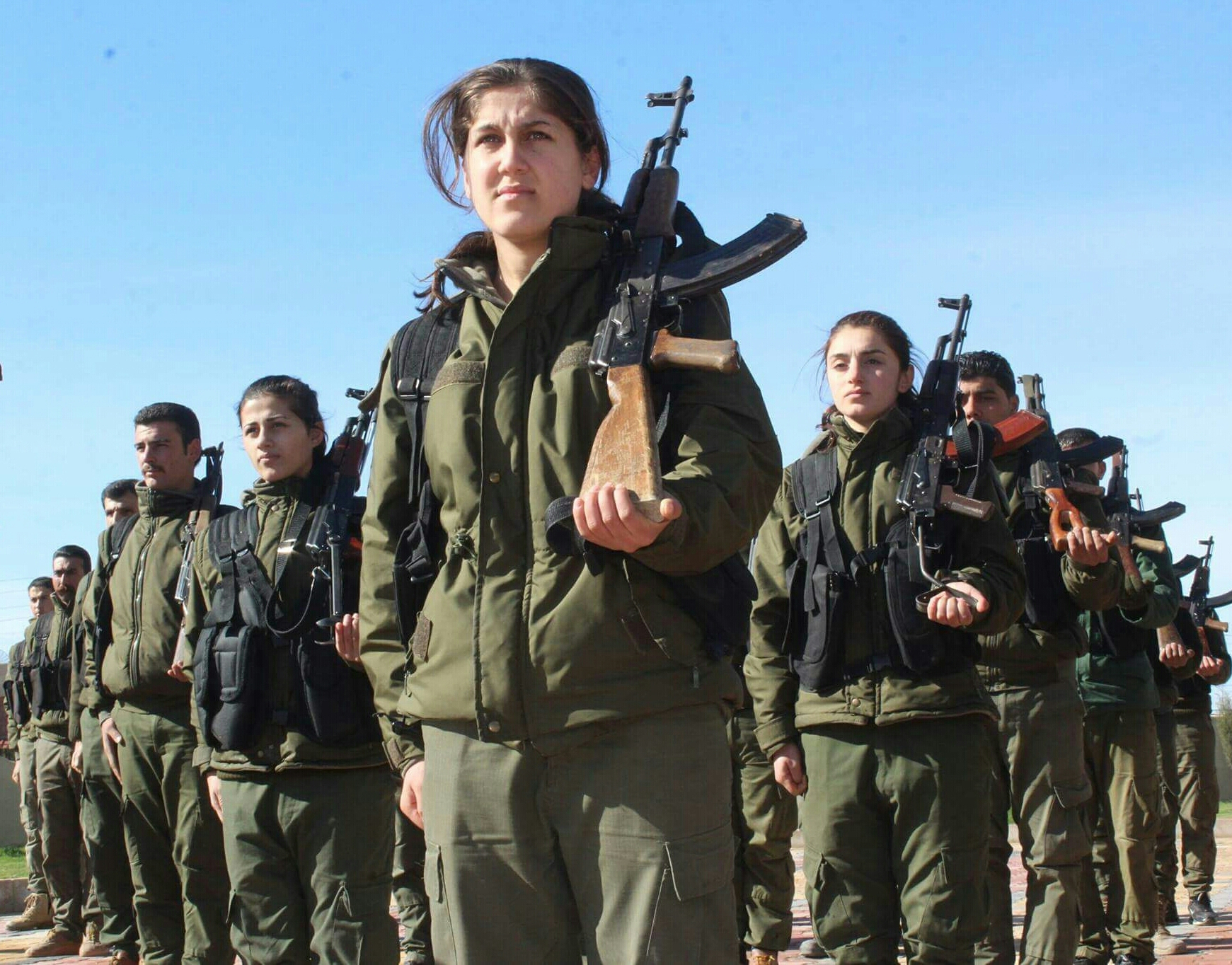 Asayîş (Security Forces) YPG